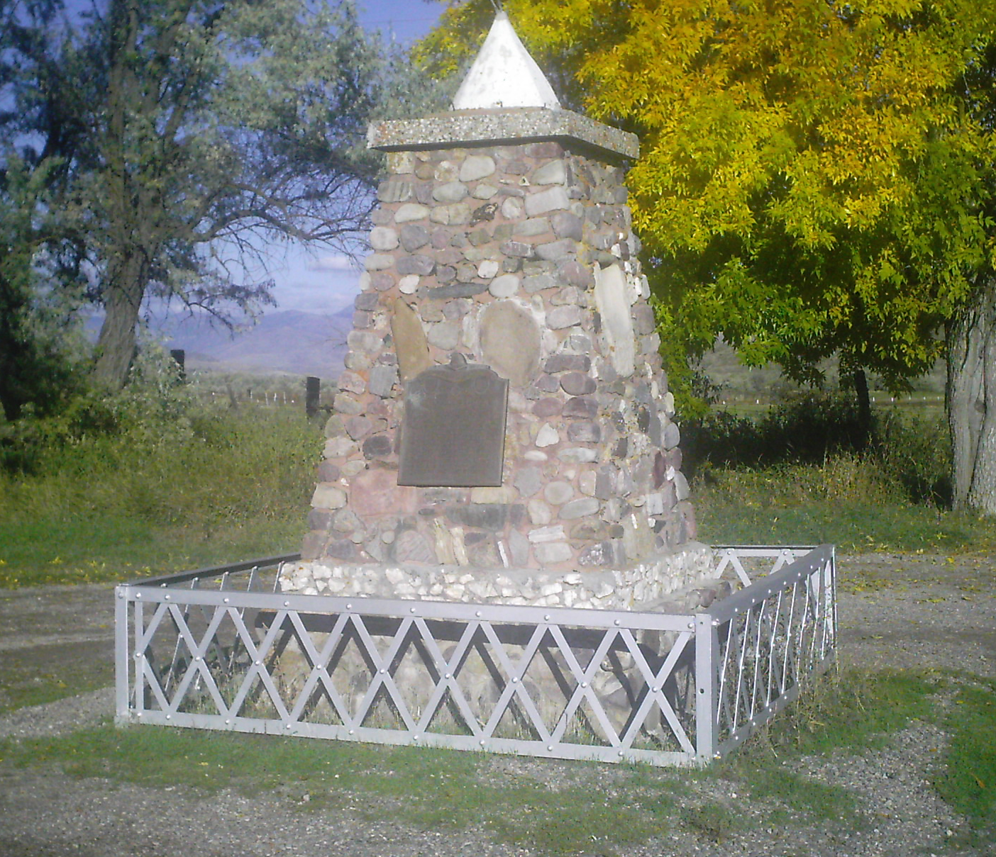 Monument for the Bear River Massacre. Built by Daughters of Utah Pioneers, displaying plaque donated by U.S. Dept. of Interior designating this spot as a National Historic Landmark.